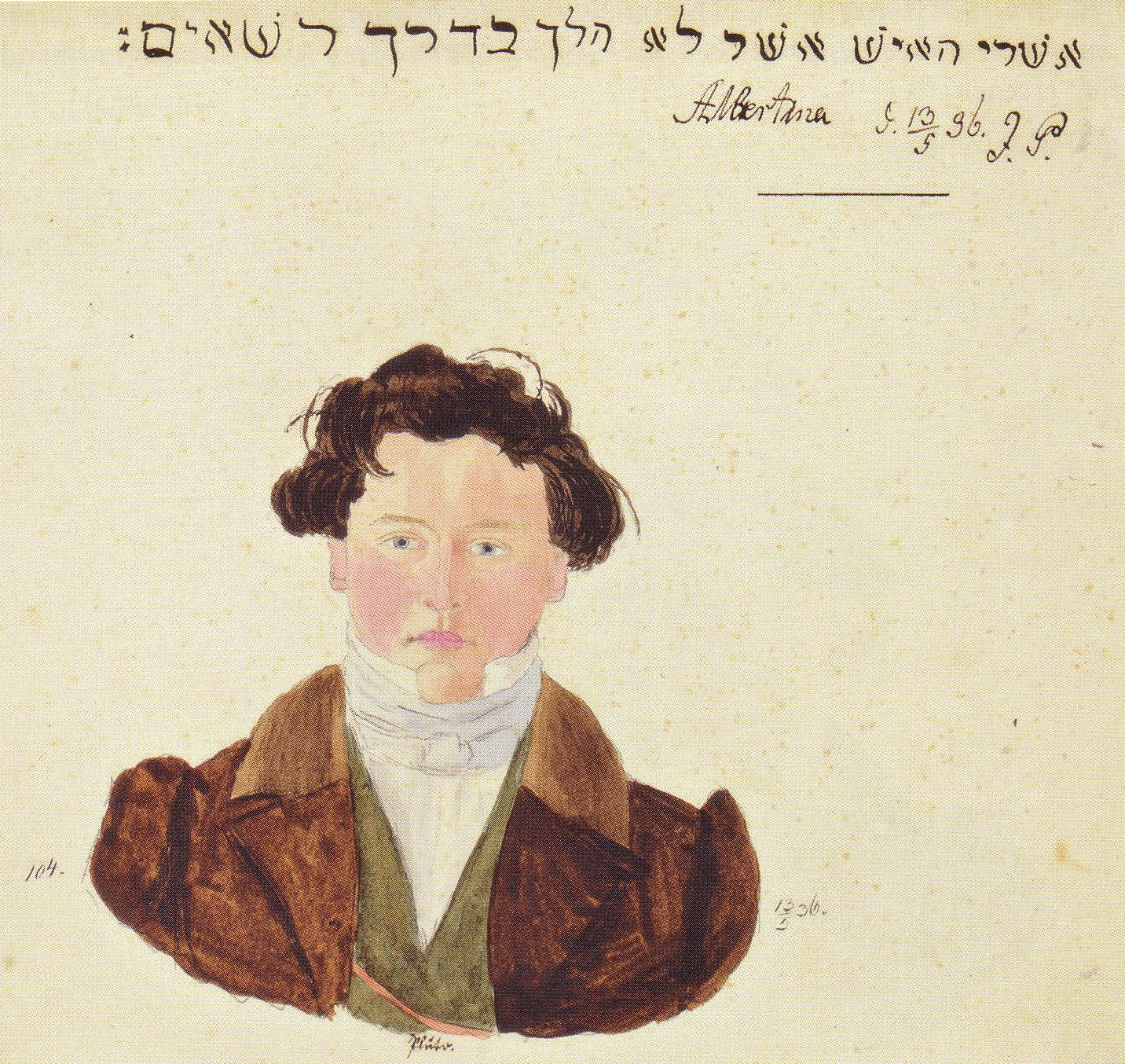 Portrait drawings in Album Amicorum by Wilhelm Schmiedeberg showing Jacob Preuß (1814-1887)